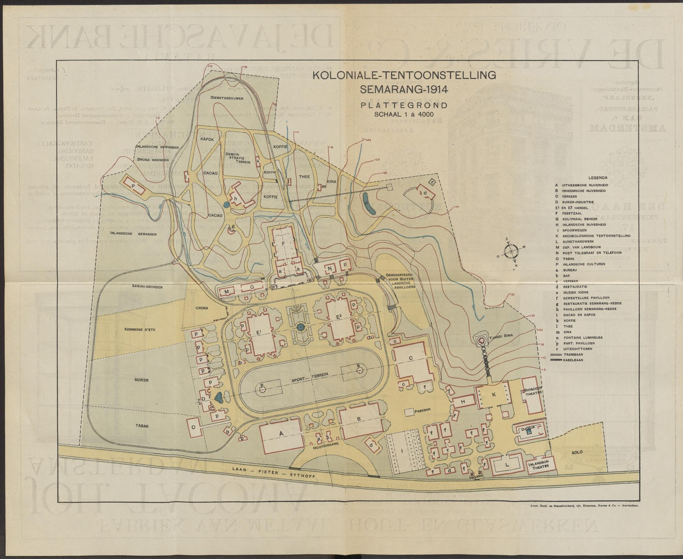 Kolonial-tentoonstelling Semarang in 1914